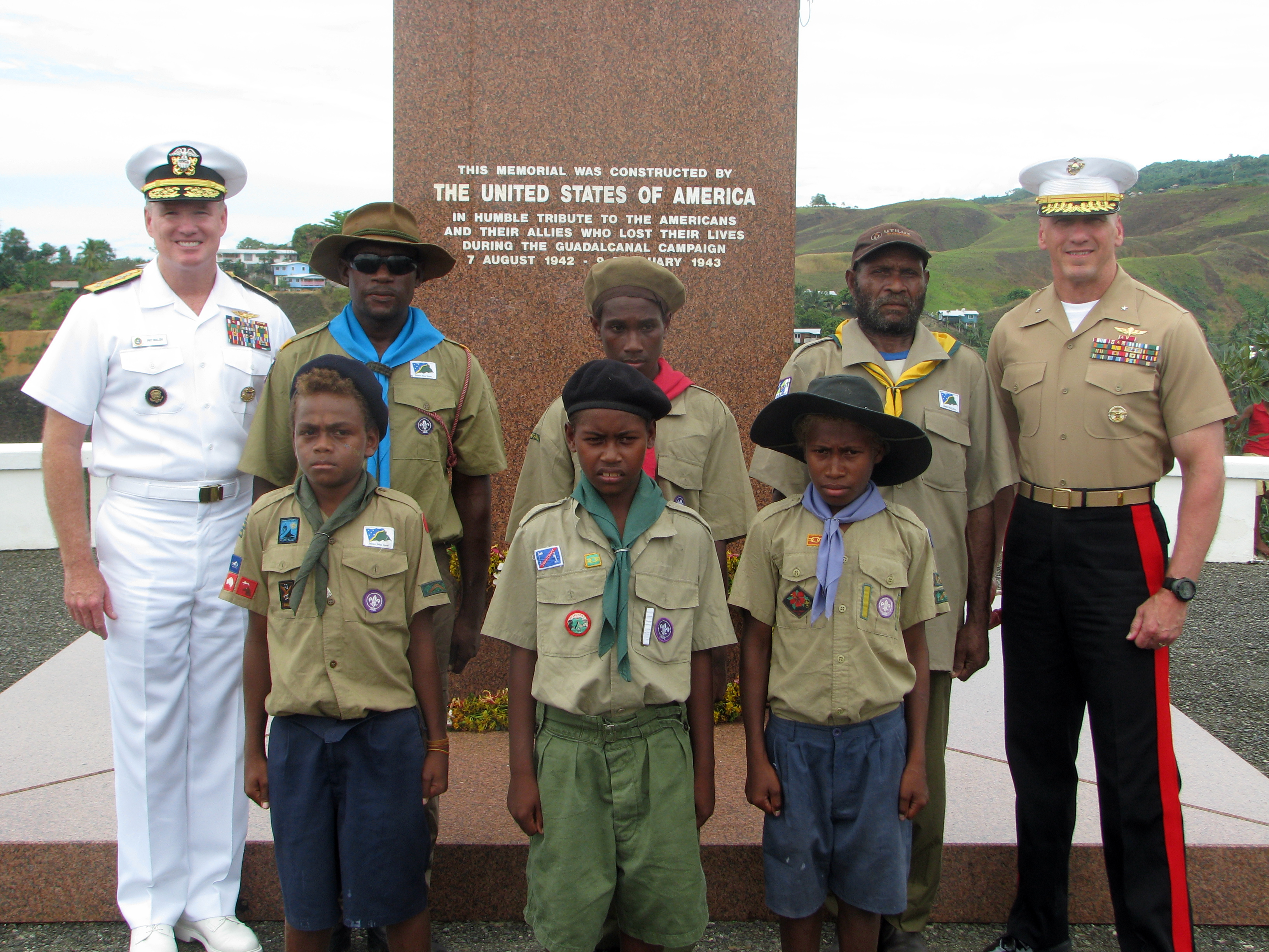 HONIARA, Solomon Islands (June 29, 2011) Adm. Patrick Walsh, commander of U.S. Pacific Fleet, left, and Secretary of Defense South/Southeast Asia Principal Director, Marine Corps Brig. Gen. Richard Simcock, right, pose for a photo with Solomon Island Scouts following a wreath laying ceremony at the Guadacanal Monument, in honor of American service members who died during the Guadacanal campagin. Walsh and Simcock are part of a U.S. delegation led by Assistant Secretary for East Asian and Pacific Affairs Kurt Campbell, currently visiting nations throughout the South Pacific to engage in discussions to enhance bilateral political, economic and security relations in the region. The delegation also includes U.S. Agency for International Development (USAID) Assistant Administrator Nisha Biswal. [U.S. Navy photo by Lt. Cmdr. Thomas Weiler/U.S. Government Work License/Public Domain]